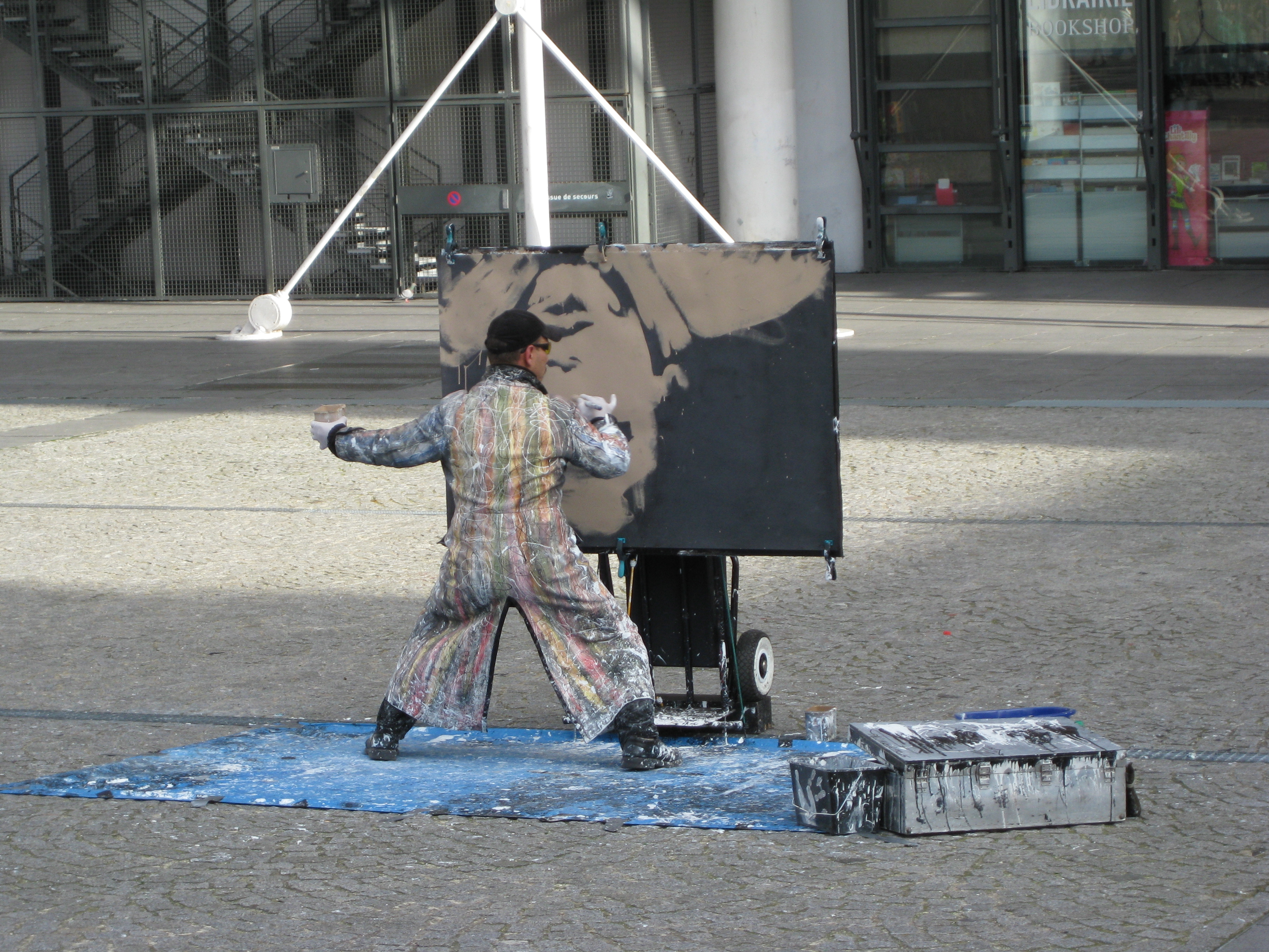 Speed painting with painting standing on its head in front of Centre Pompidou, Paris, France.